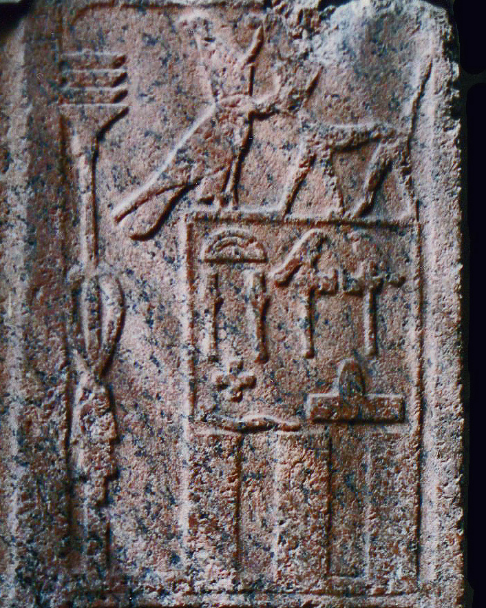 Detail of granite door jamb bearing the horus and seth name of Khasekhemuy in Nekhen (Hierakonpolis), Egyptian Museum Cairo. Everything suggests that after winning a crushing defeat on his enemies, the Horus Khasekhem changed its name to Khasekhemuy and dedicated a temple to the god Horus in the city of Nekhen (Hierakonpolis). The Palermo Stone (written in the mid-V th Dynasty) informs us that the king Khasekhemuy, undertook the construction of a stone temple during his rule. The simple fact that this remarkable document stipulates that it was a stone building is already clear evidence that such stone buildings, must be quite rare in this early period. The large fragment of this door, from Hierakonpolis, seems to have belonged to that same sanctuary that speaks the Annals of the Palermo Stone. For the variant of the name of King, seen here written, it appears that the building itself was built after the pacification of the country struggles. In the front of the door, covering up and down the jamb is carved in relief three times the full name of King Khasekhemuy Nebuwy-hetep-WeneF. This appears locked in a protected serekh wide figures pacified the gods Horus and Seth. This large carved granite door, was originally found attached to an adobe wall. At present, the mighty fragment of it has reached us, is considered the greatest achievement of tinita period, in regard to stone carving. Undoubtedly she is the forerunner of the pyramid that King Neterykhet Djeser. Egyptian Museum, Cairo. bibliography: Quibell, J. E. P.6 Hierakonpolis I, pl. II